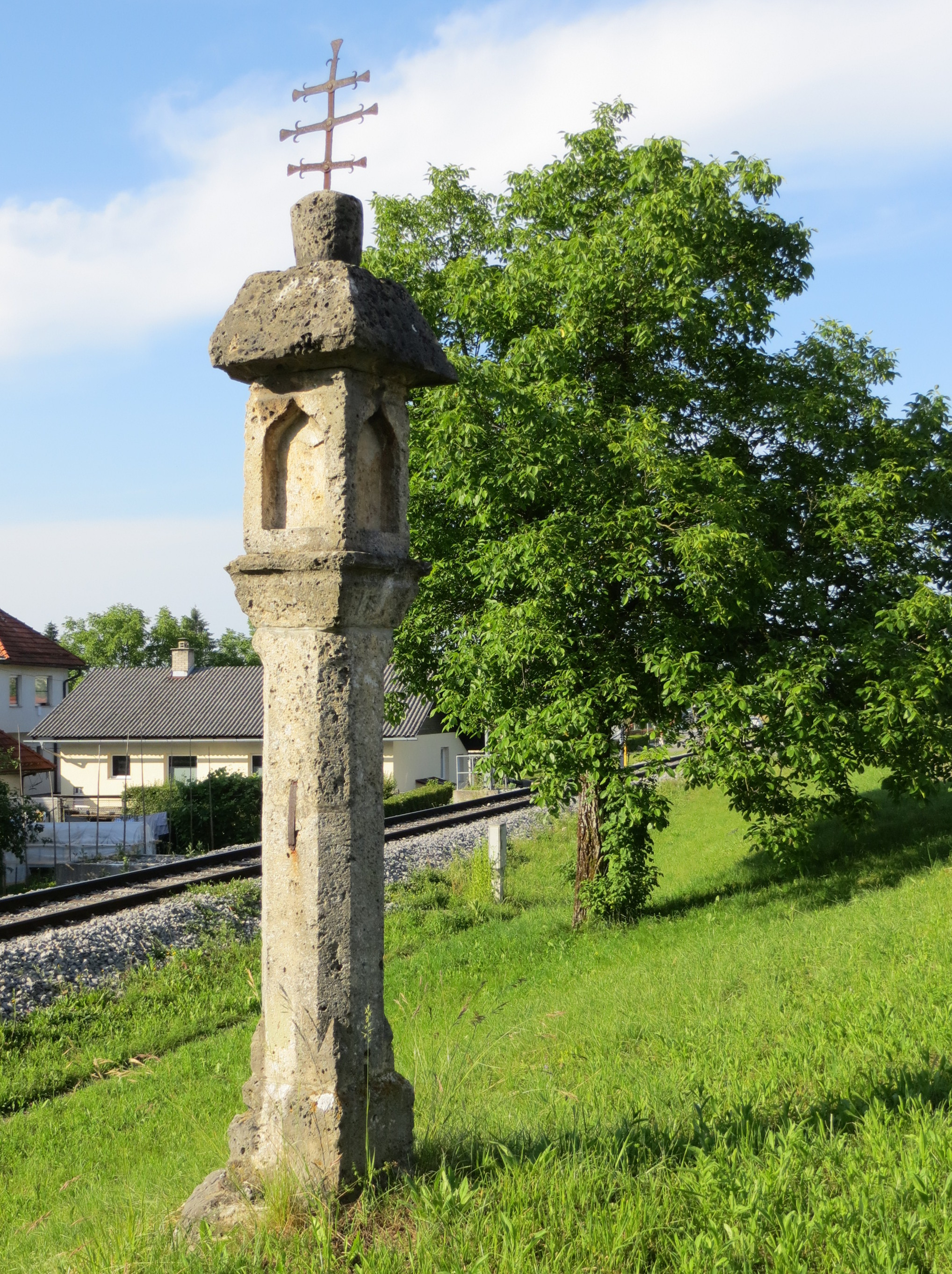 Blood shrine (Sln. krvavo znamenje) at possible former execution site in Podgorje, Municipality of Kamnik, Slovenia